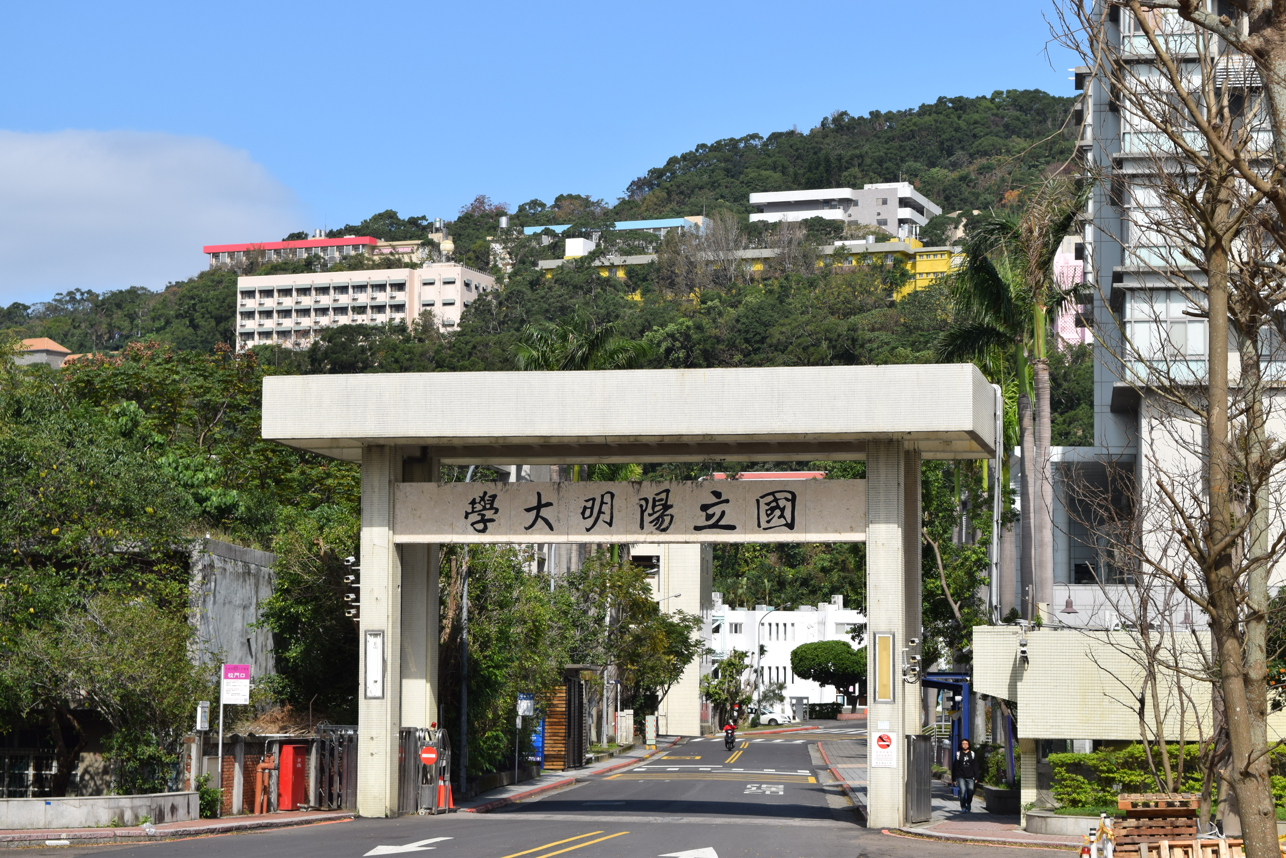 National Yang-Ming University, view from the main entrance. 中文（台灣）: 國立陽明大學正門全景